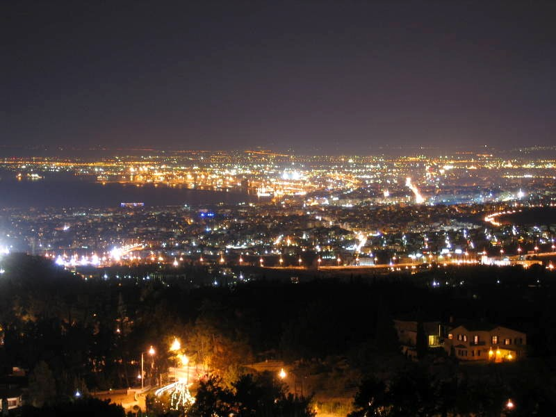 Night view of Thessalonica from the exclusive suburb of Panorama. Thessaloniki, Greece. Photo taken in 2006.